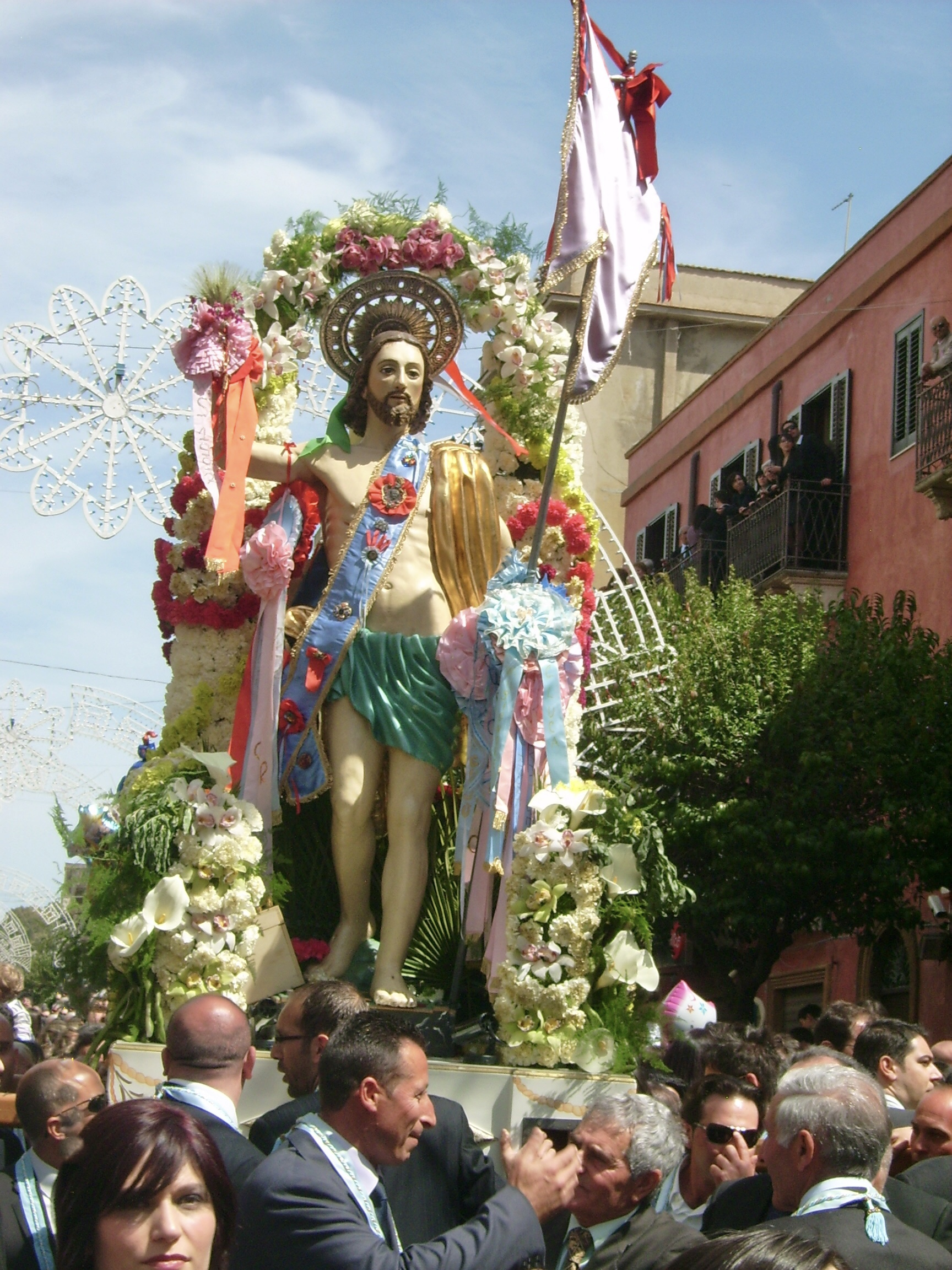 Ribera' Easter - Statue of Jesus